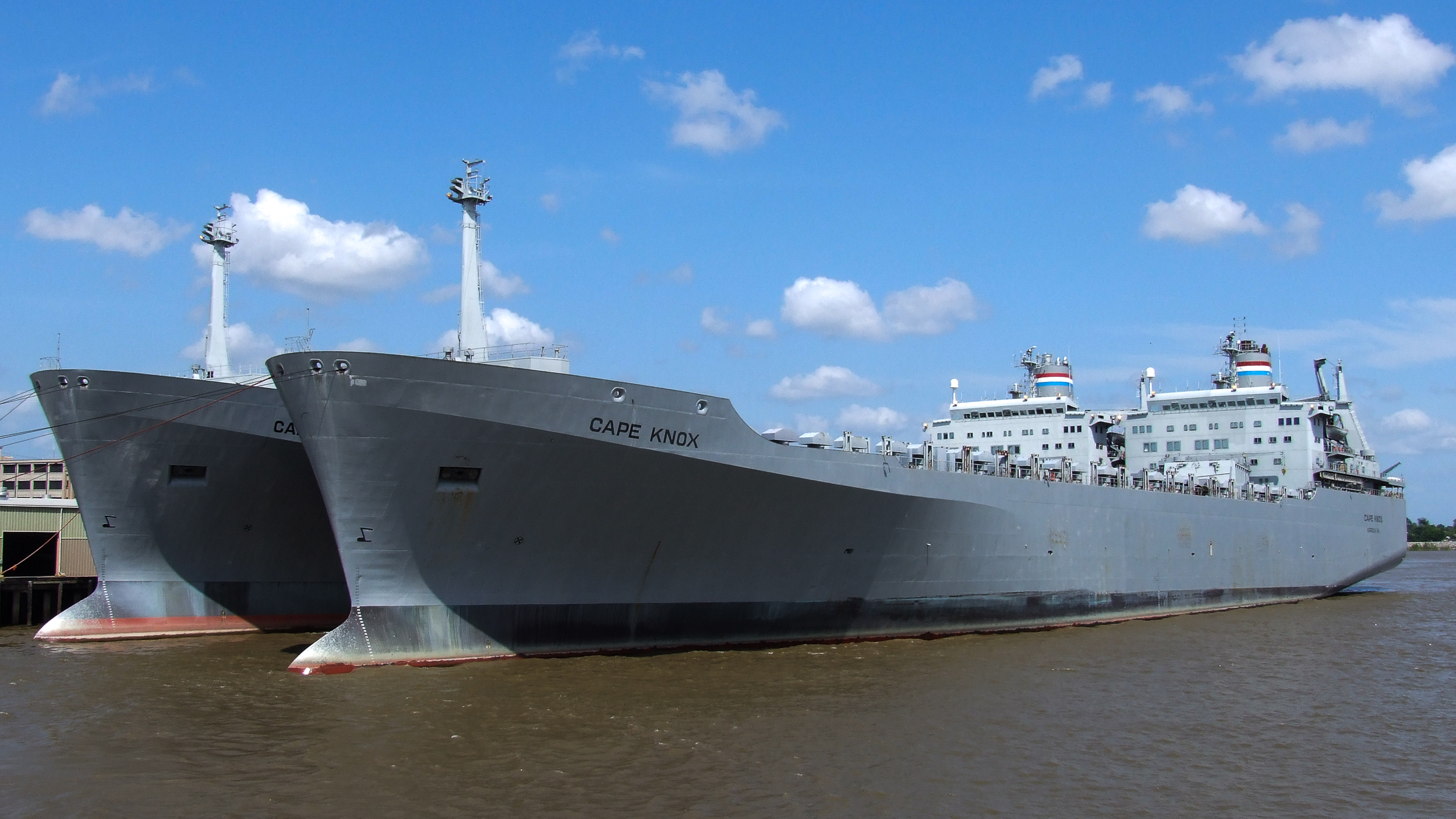 MV CAPE KNOX (T-AKR-5082) and MV CAPE KENNEDY (T-AKR-5083) moored at their berth at New Orleans, LA, USA.